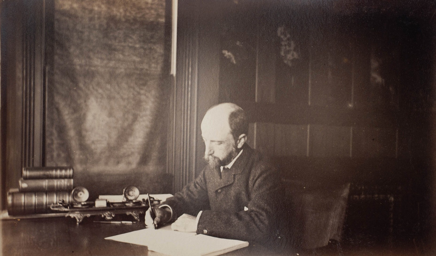 Henry Adams seated at desk in dark coat, writing. Photograph by Marian Hooper Adams, 1883. Album page: 17.4 cm. x 25.5 cm.; photograph: 11.5 cm x 20 cm. From the Marian Hooper Adams photographs. Photo. 50.71. (Album 8, page 24). "H.A." written by Marian Hooper Adams. Courtesy of the Massachusetts Historical Society.